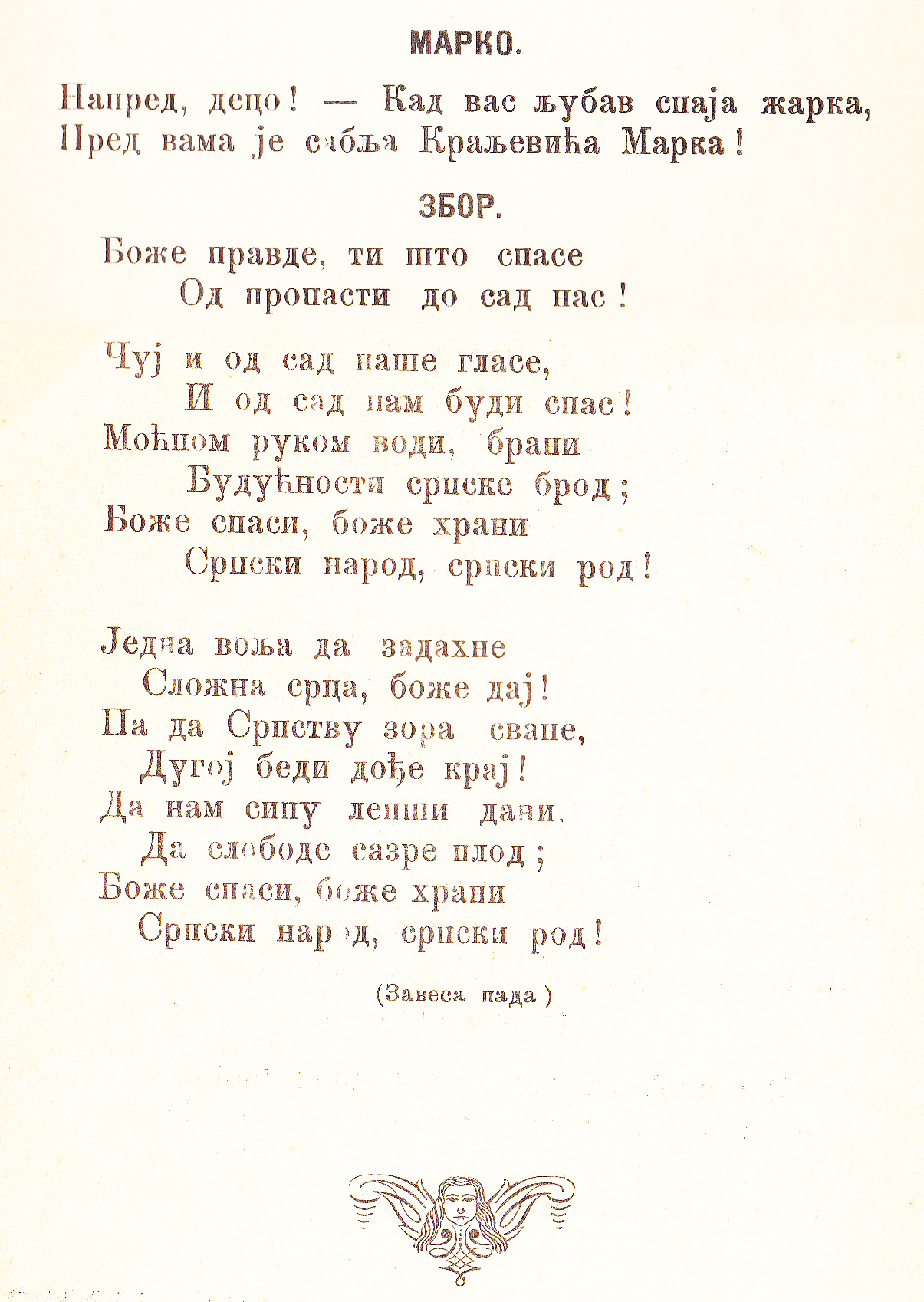 This is a scanned and edited image of the last two pages of the book "Markova sablja" (Marko's sword). It illustrates the first version of the lyrics that came to be the Serbian National Anthem - "Bože pravde". Full text of the book cover page: (original Serbian) "Зборник позоришних дела. / Свеска тридесета. / Маркова сабља. / Алегорија у два дела. / написао Јован Ђорђевић. / Штампарија Браће М. Поповића. / у Новом Саду." (translated to English) "Anthology of theatrical works / Book no. 30 / Markova sablja / Allegory in two parts / written by Jovan Djordjevic / Printed by Stamparija Brace M. Popovica / Novi Sad."